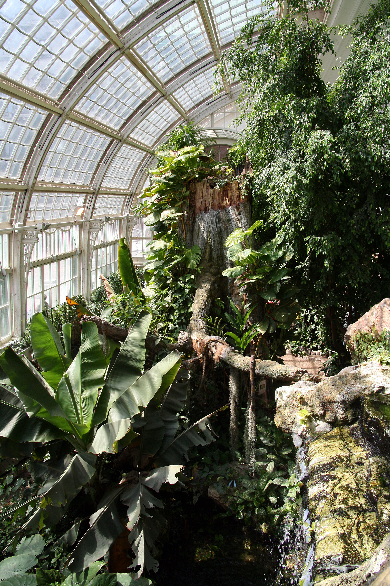 The butterfly zoo inside the Palmenhaus at Burggarten in Vienna.